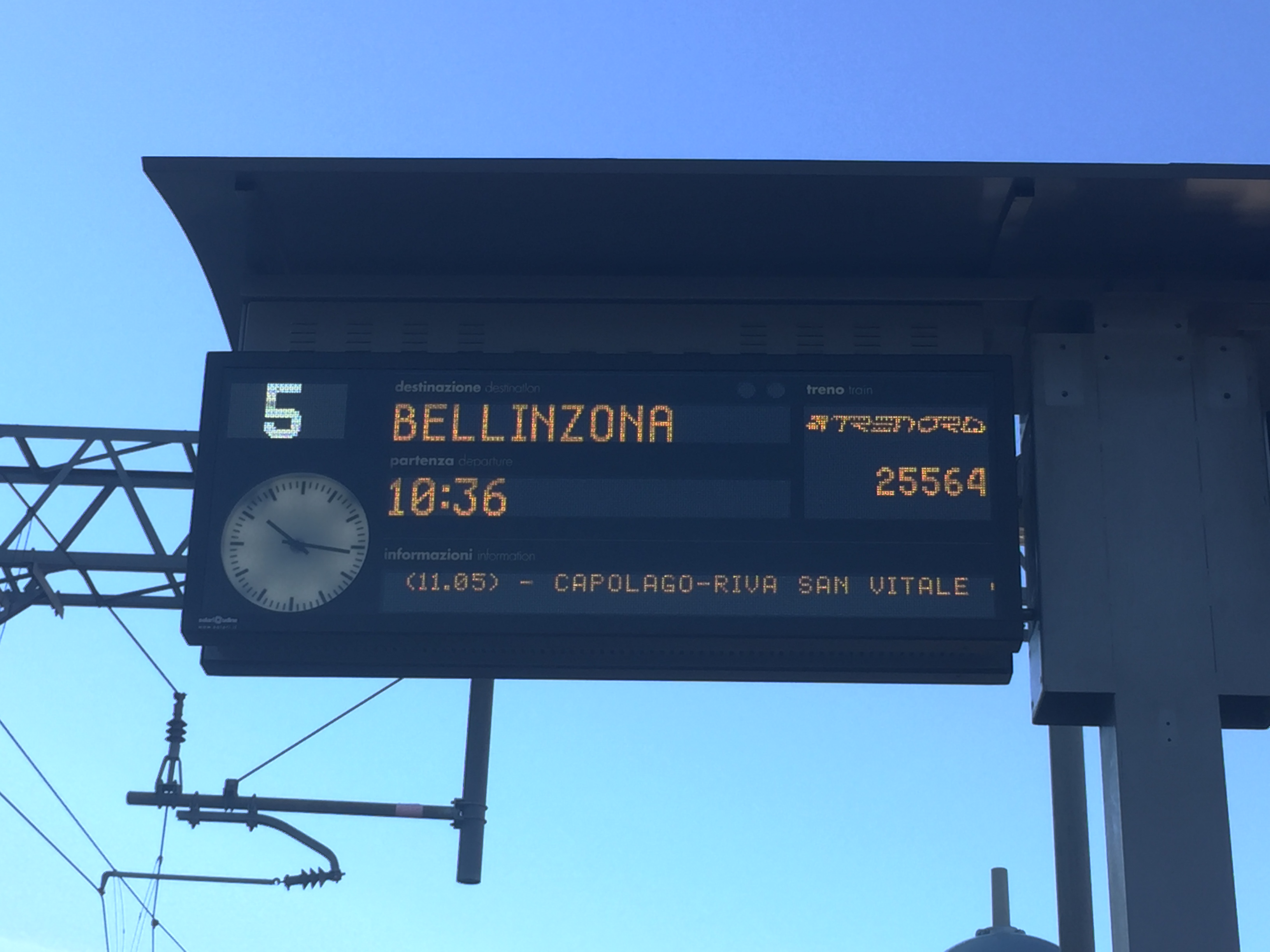 Electronic display at Varese FS train station announcing the 10:36 stopping train to Bellinzona.